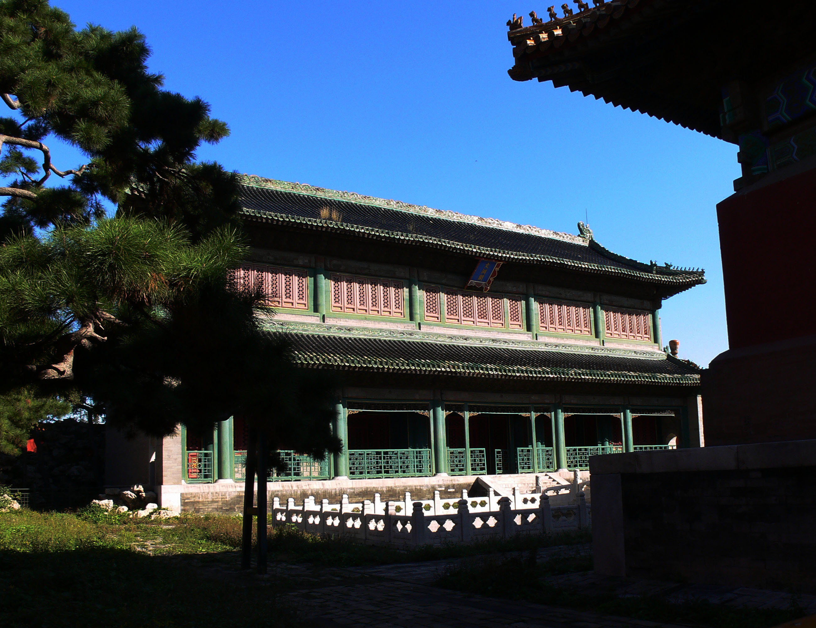 Wen Yuan Chamber Imperial Library, Forbidden City 中文（中国大陆）: 北京故宫文渊阁